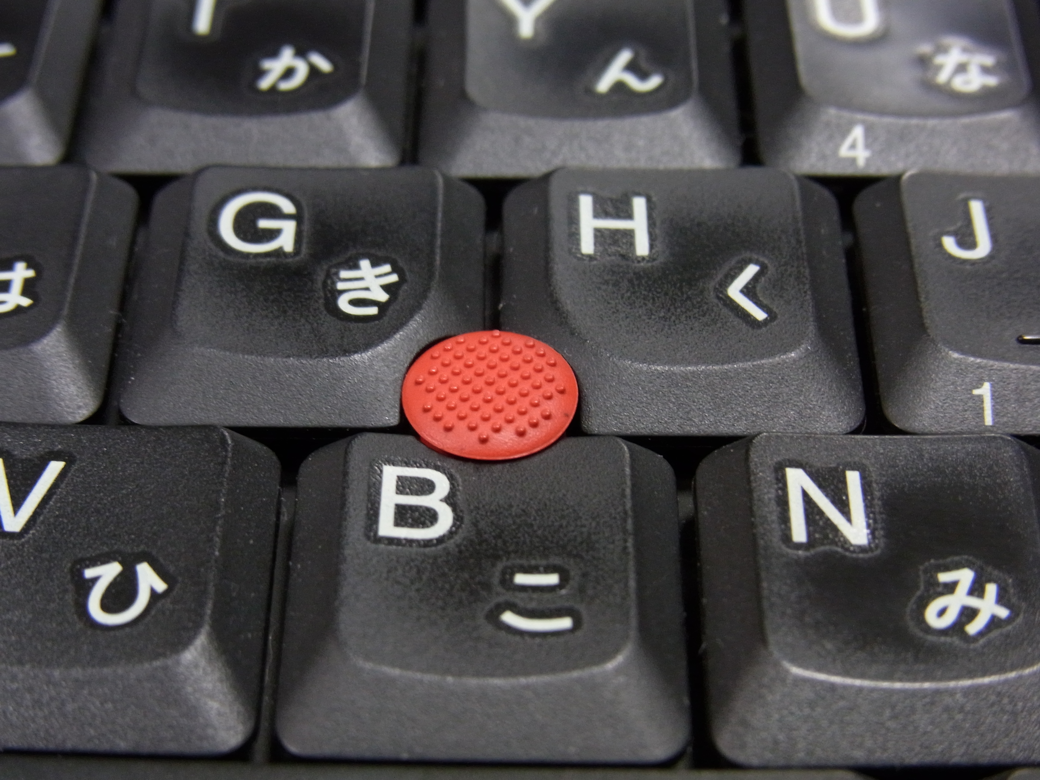 ThinkPad X60 pointing stick